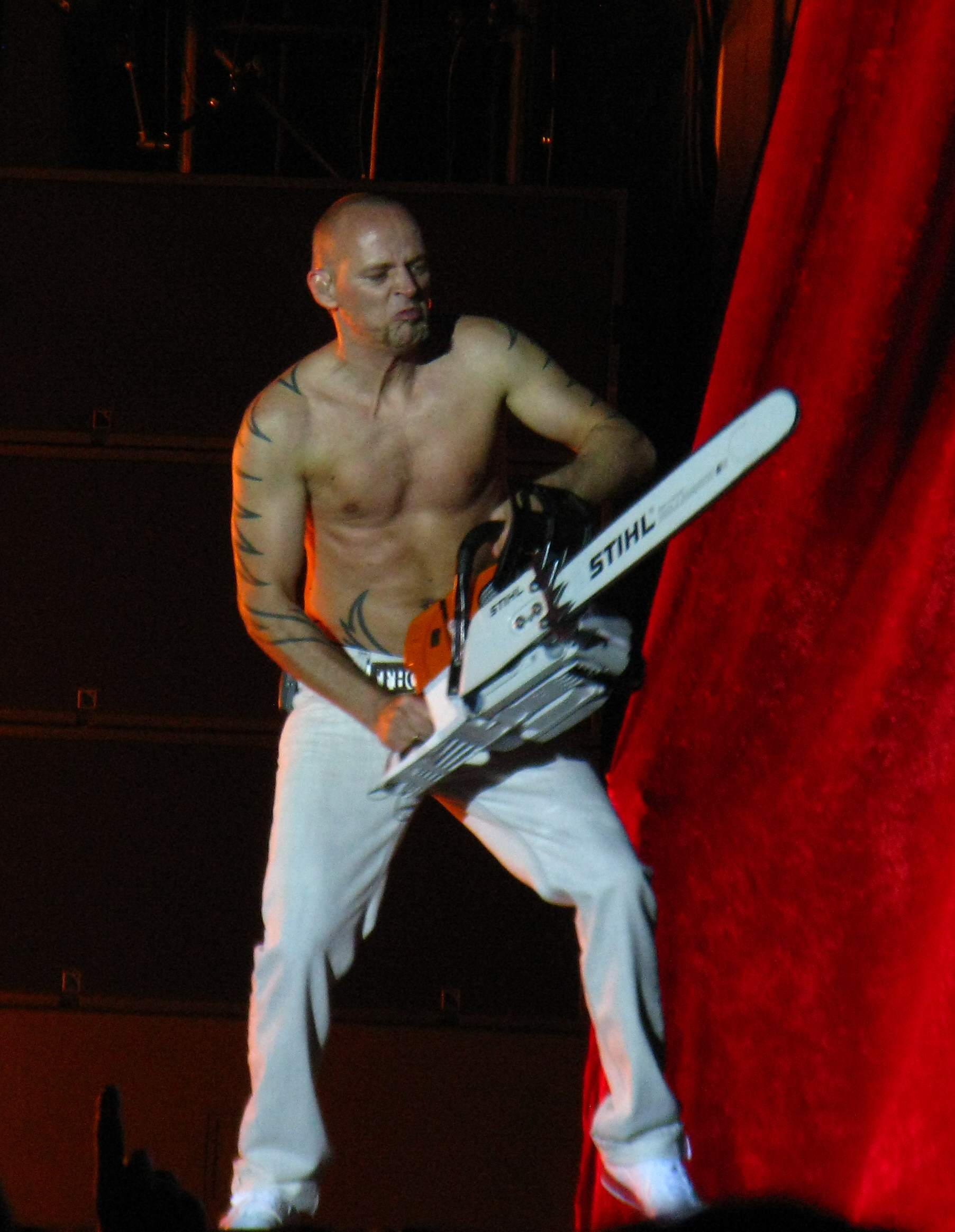 "Heimspiel" - 20 years anniversary gig of Die Fantastischen Vier at Cannstatter Wasen in front of 55.000-60.000 people. Thomas D uses a chainsaw during performance of their song "Schizophren".